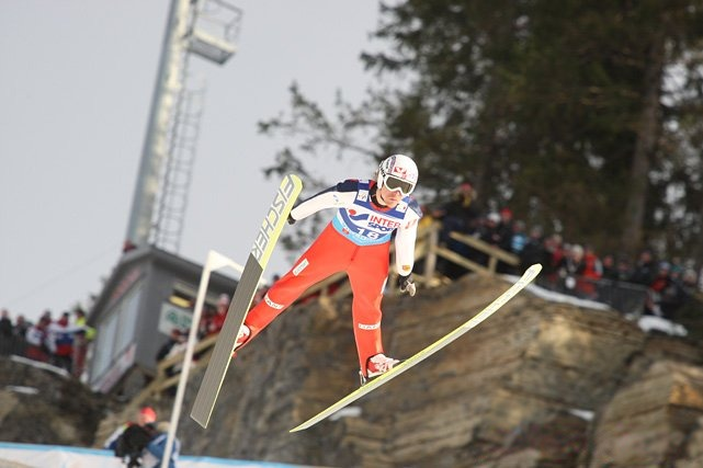 Bjoern Einar Romoeren in the FIS Ski-Flying World Championships 2012